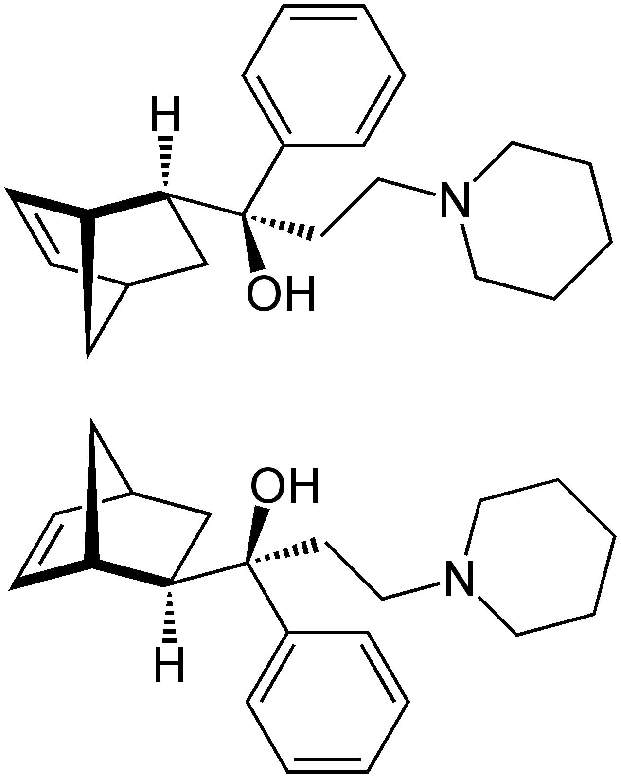 Biperiden_Stereoisomers